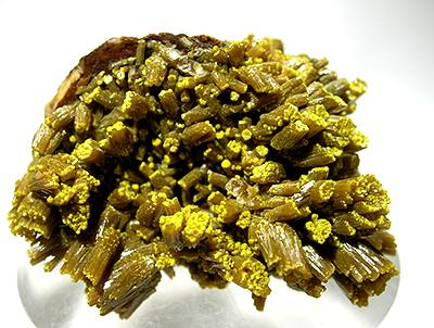 Pyromorphite Locality: Poullaouen, Brittany, France (? as indicated on label but it looks Les Forges...) Size: miniature, 3.7 x 3.4 x 2 cm Pyromorphite A really aesthetic cluster of unusually yellow pyromorphite that looks as if the cluster was windswept during growth and formed so elegantly in response! This is an unusual piece, but consensus is that it probably is Les Farges though Hansen indicated on his label that he had been told it was from another locality in Brittany, in the past. I am pricing it cheaply because, honestly, I do not know who is right and I am being cautious. I assume it is LF, personally.